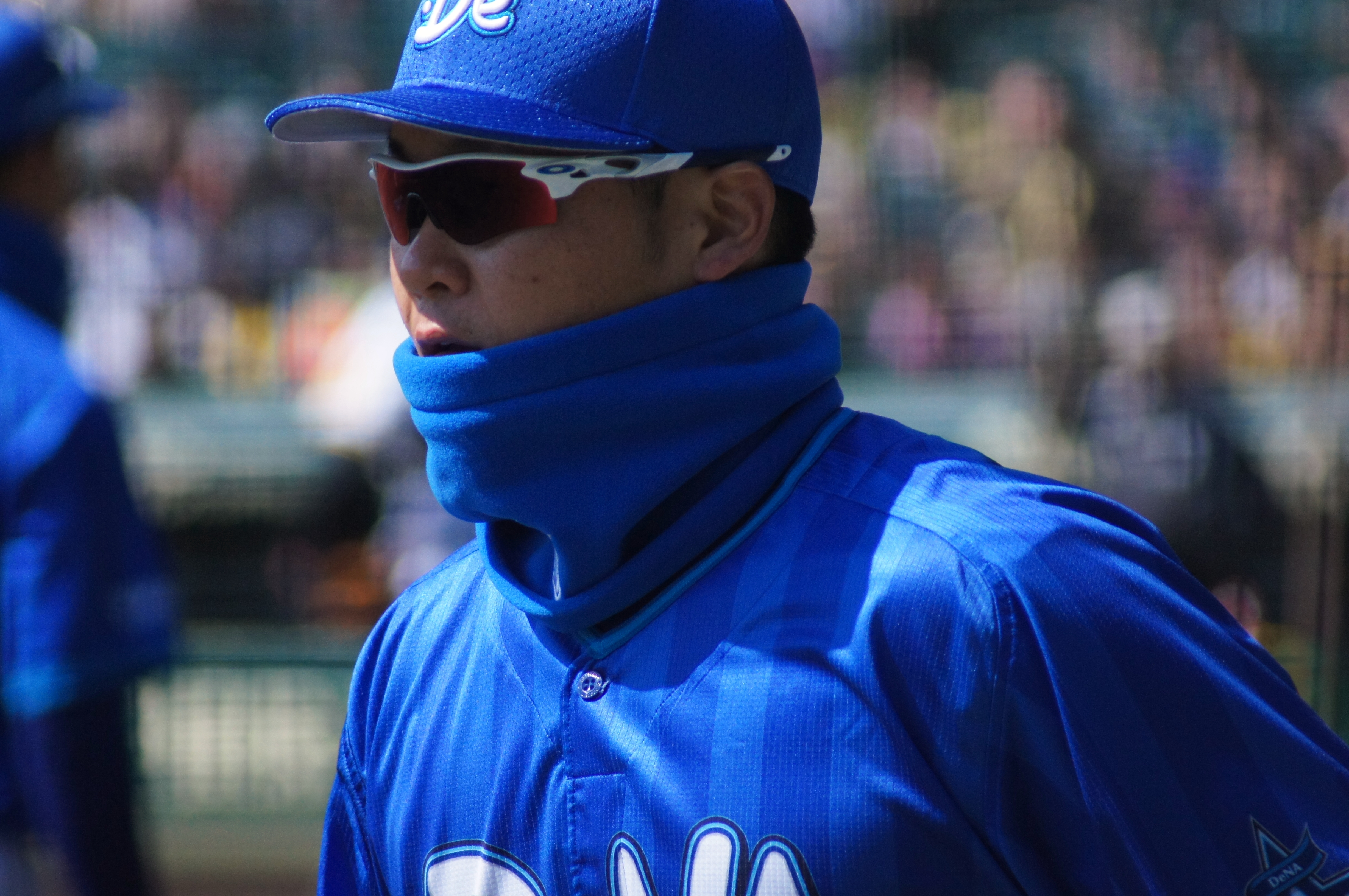 Yoshitomo Tsutsugo, outfielder for the Yokohama DeNA BayStars, at Hanshin Koshien Stadium